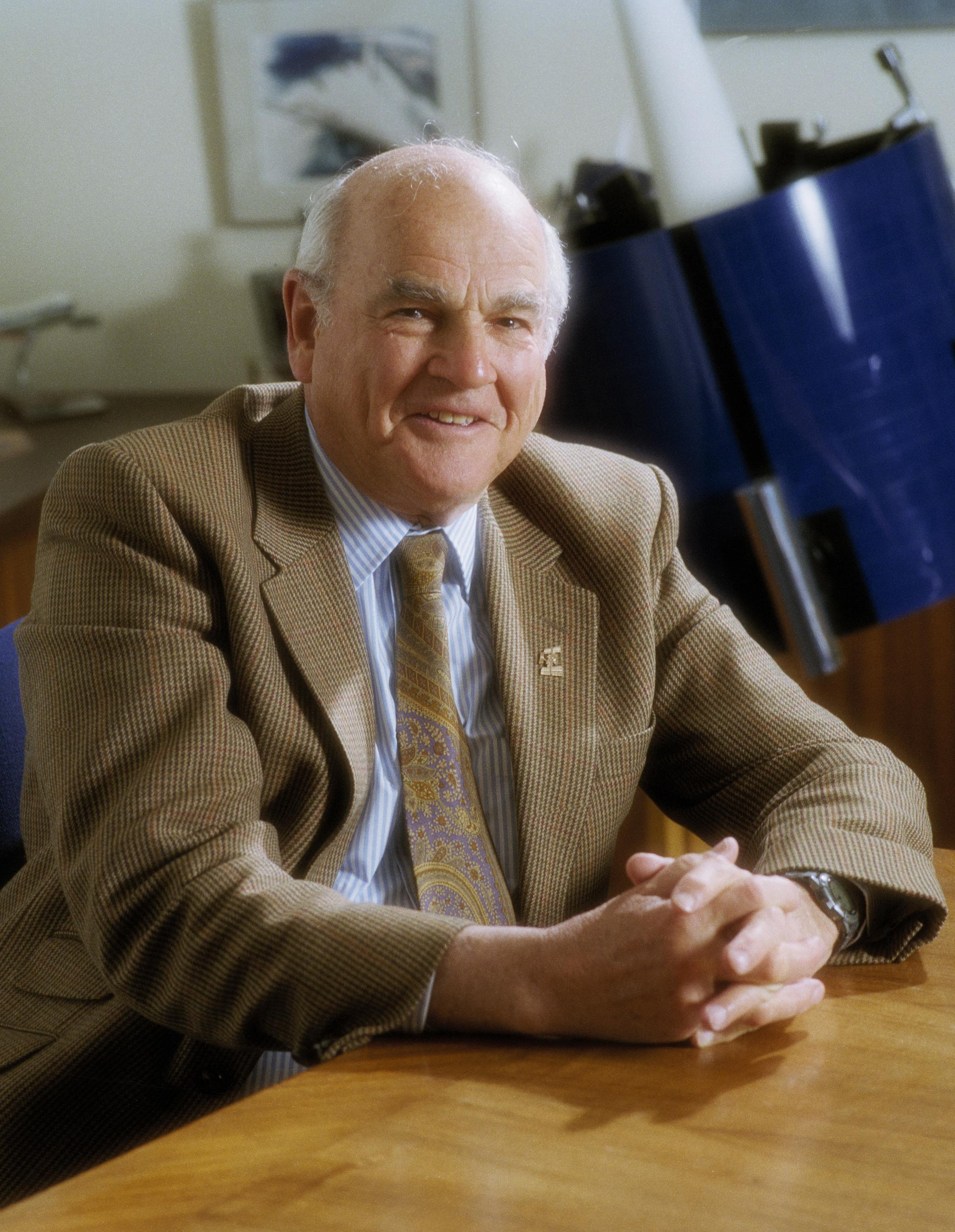 A NASA portrait of Dr. Baruch Blumberg in 1999.